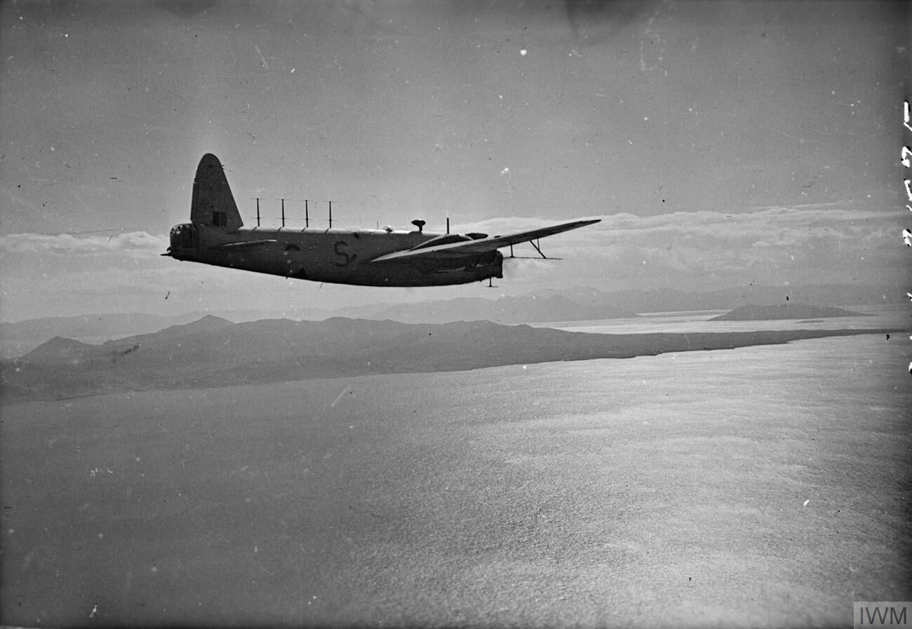 IWM caption : Vickers Wellington GR Mark XIII, JA412 ‘S’, of No 221 Squadron RAF based at Kalamaki/Hassani, Greece, in flight over the Aegean Sea while on a mission to drop relief supplies over isolated villages in Macedonia.